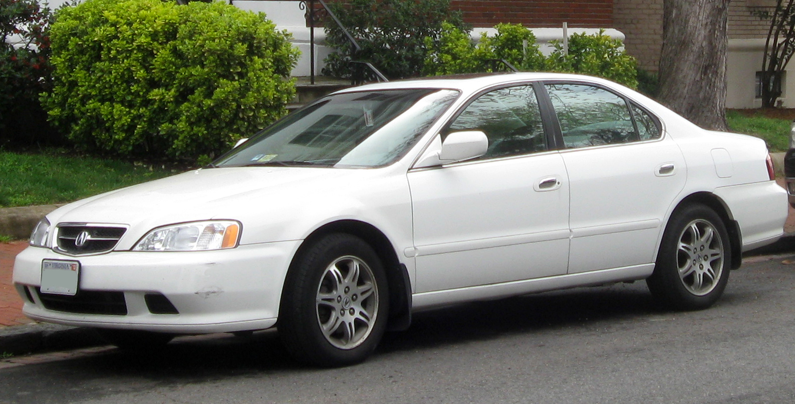 1999-2001 Acura TL photographed in Washington, D.C., USA.